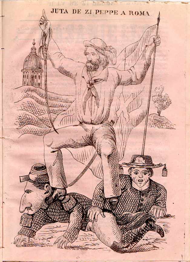 Cover of Neapolitan Magazine showing a satiric picture Garibaldi standing over Napoleone III and roman cardinal, on background Vesuvio and St.Peter church